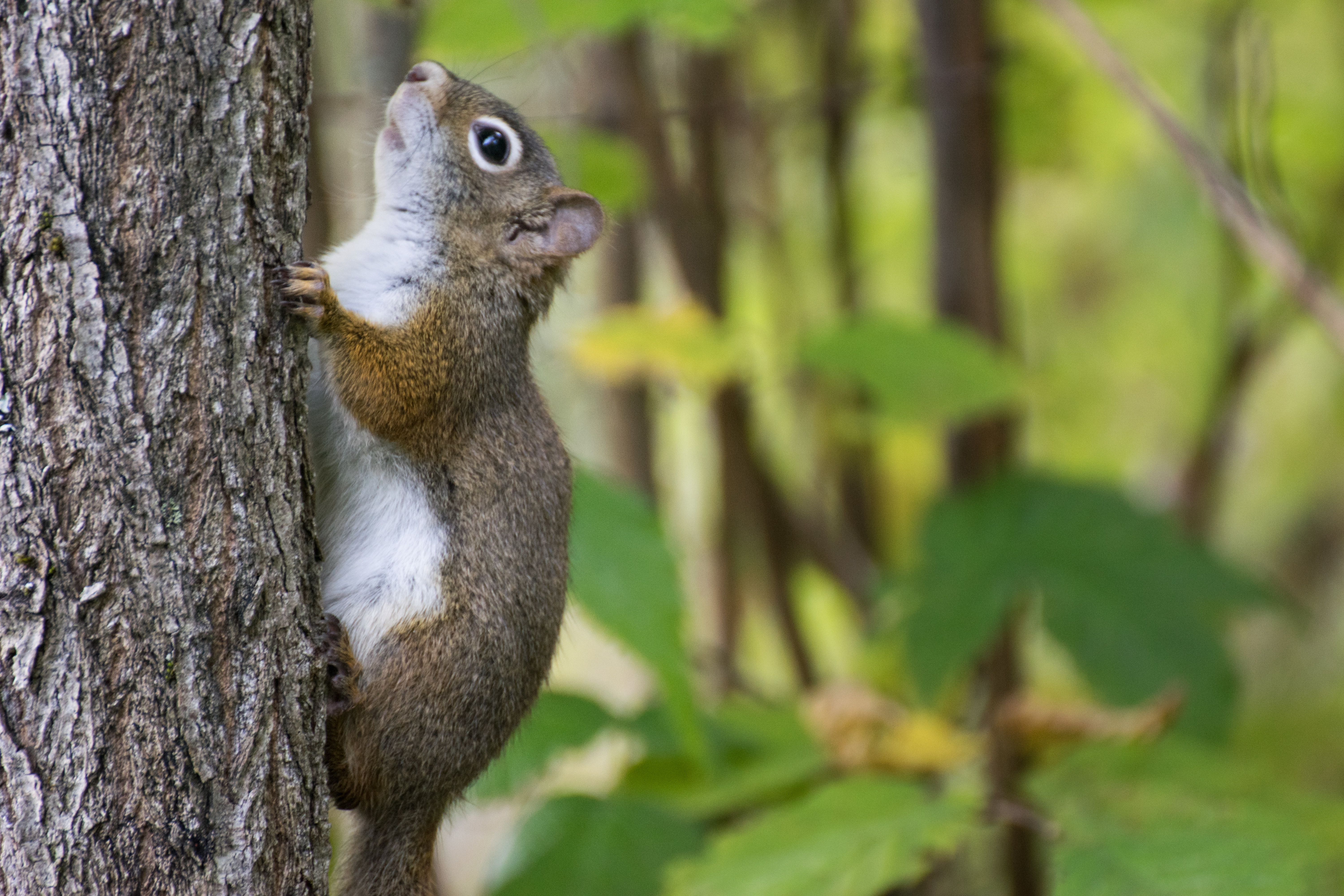 A sciurus in a tree next to the river rivière du Moulin, Chicoutimi, Quebec, Canada.